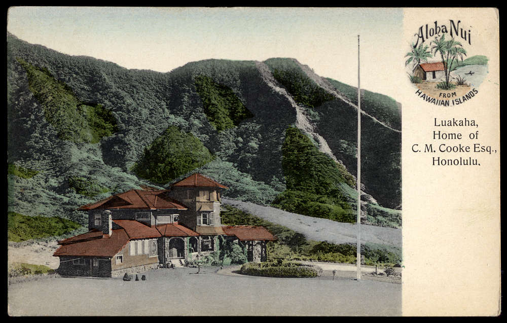 Aloha Nui Postcard of Luakaha, Home of C.M. Cooke